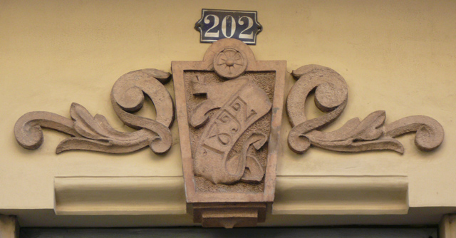 Date in Barcelona